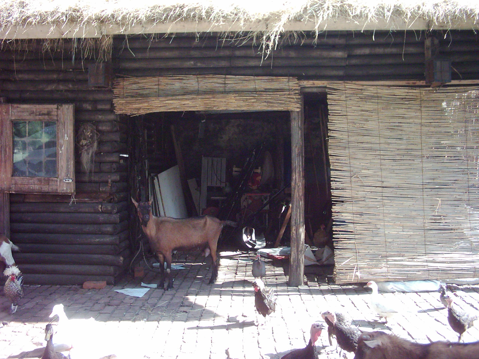 A farm in Smederevo Fortress, Serbia